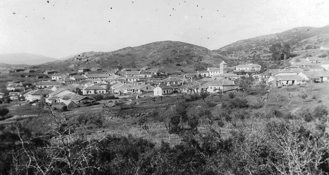 Village Grčište, photo from 1931 This media file is produced by Wikipedian in Residence in Category:Wikipedian in Residence at DARM in 2016.